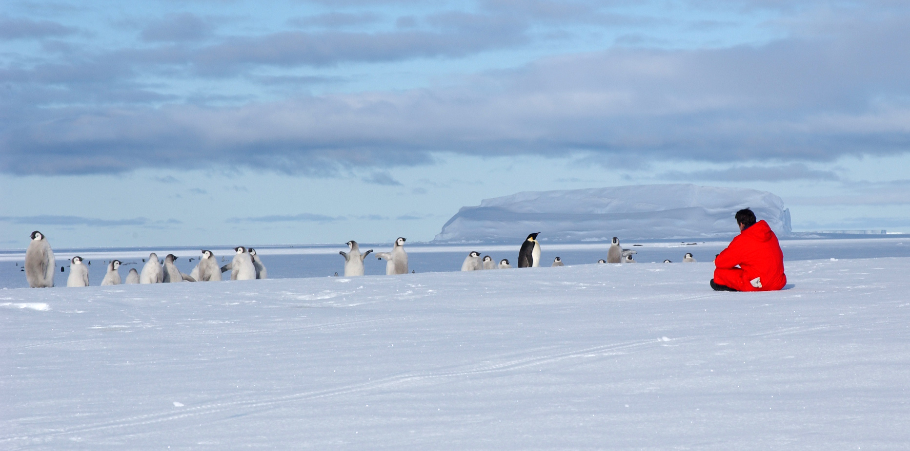 Emperor Penguin, Atka Bay, Weddell Sea, Antarctica